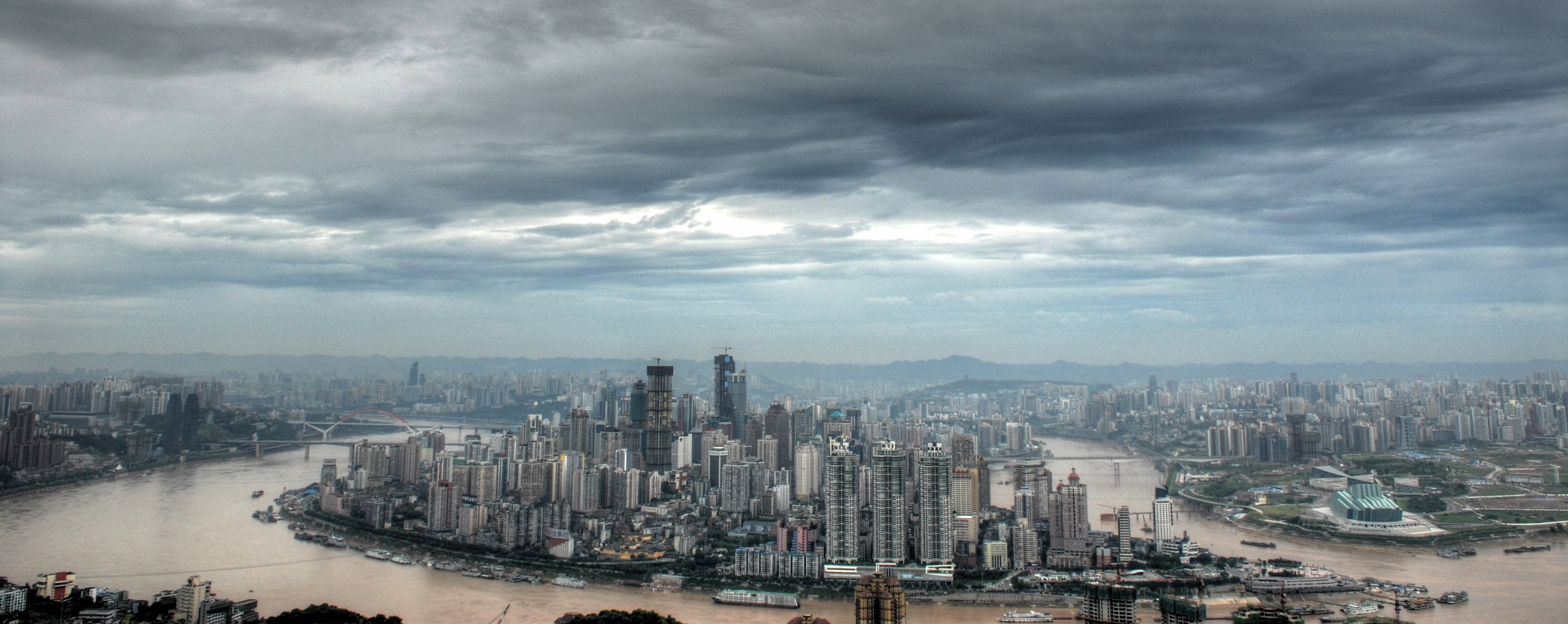 The skyline of Chongqing, Photographed at Nanshan.